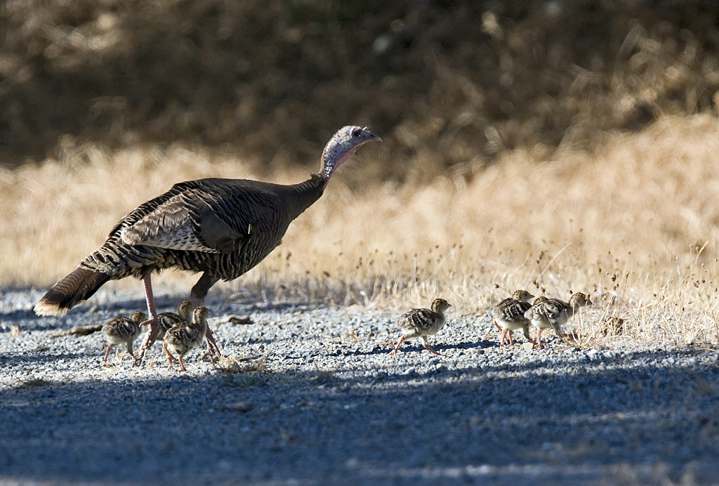 Wild Turkey (Meleagris gallopavo) and eight Chicks